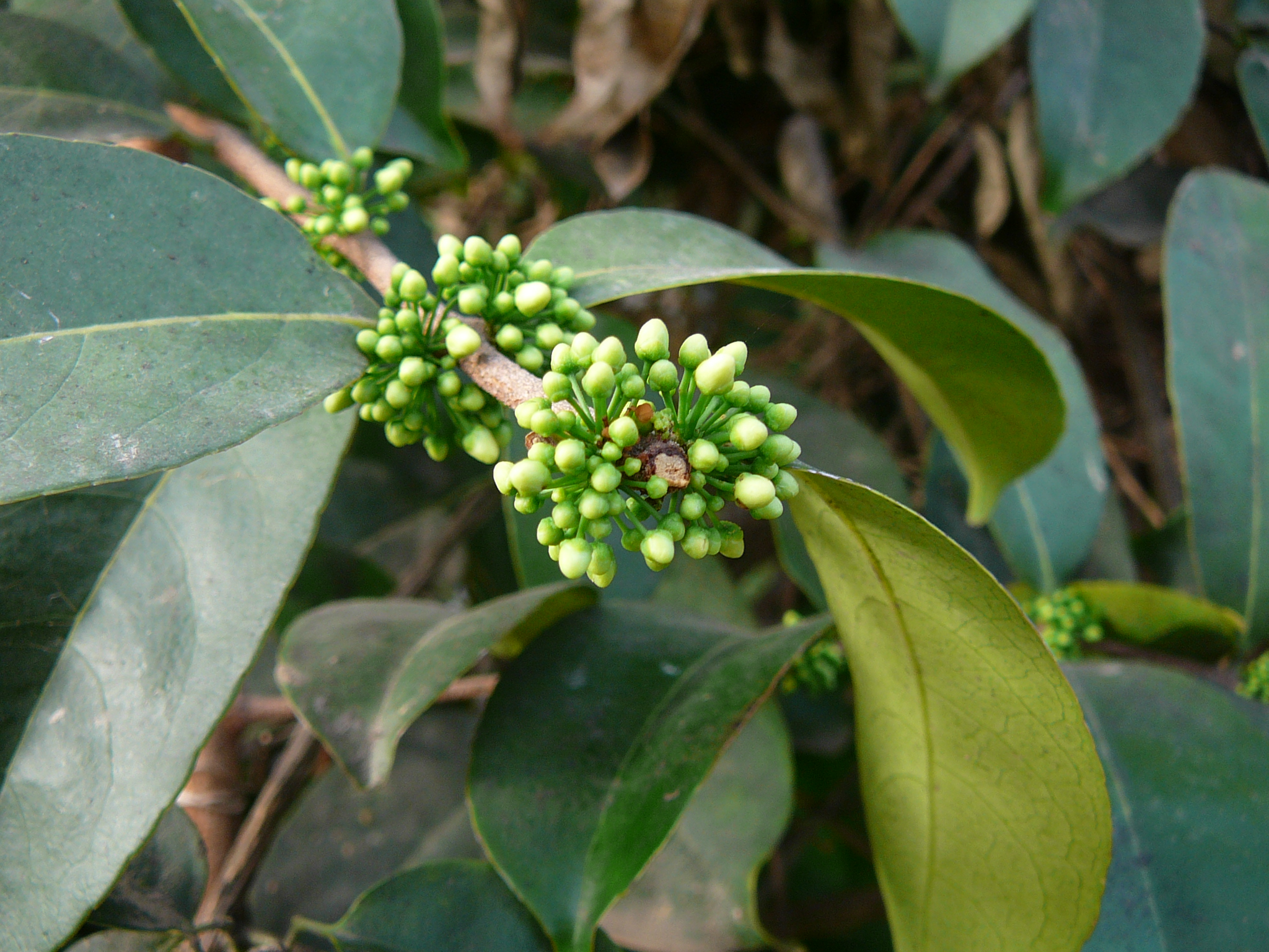 Flame Vine, Flaming Trumpet, Golden Shower